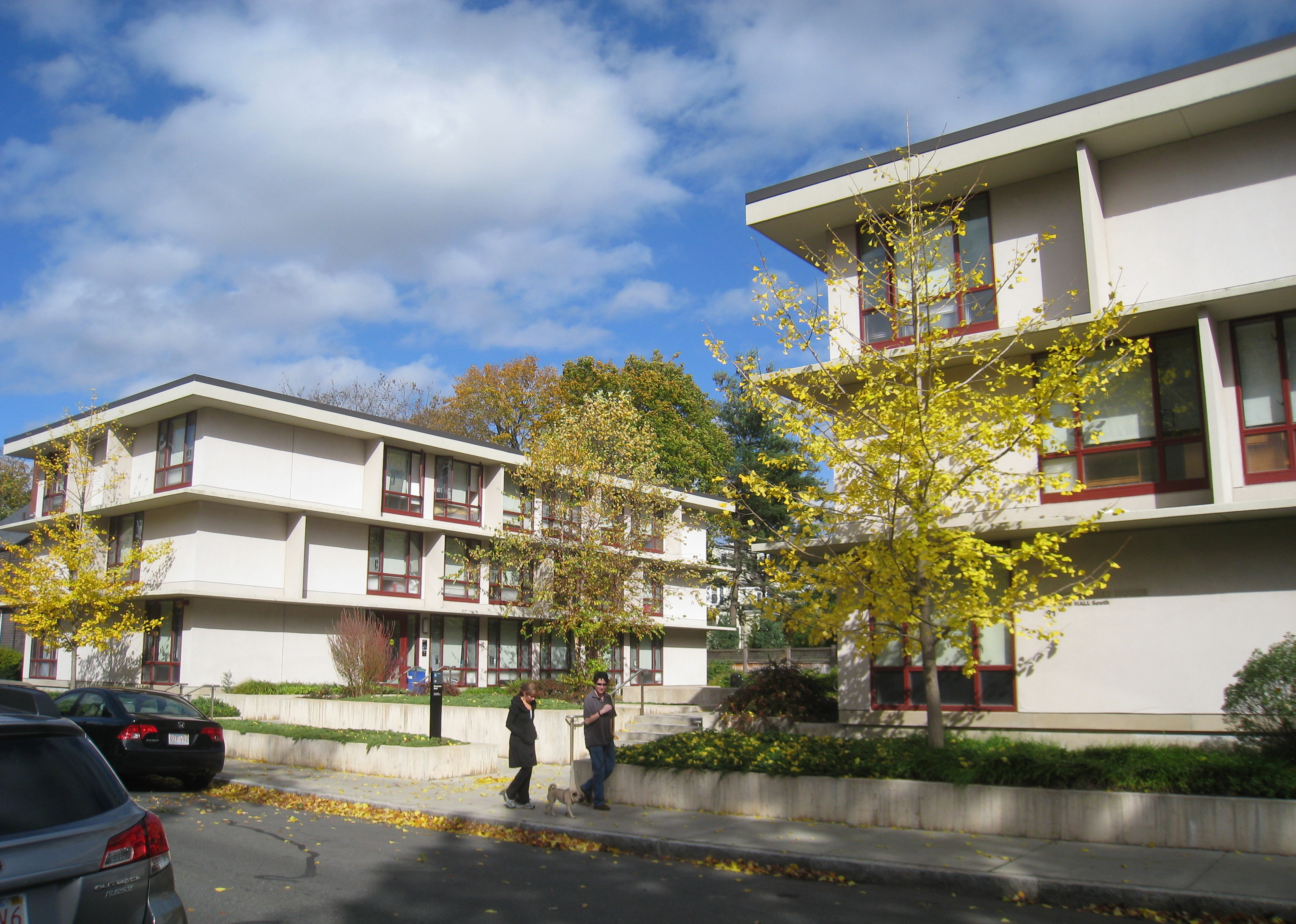 Jordan North and Jordan South, Radcliffe Quadrangle, Harvard University, Cambridge, Massachusetts, USA.